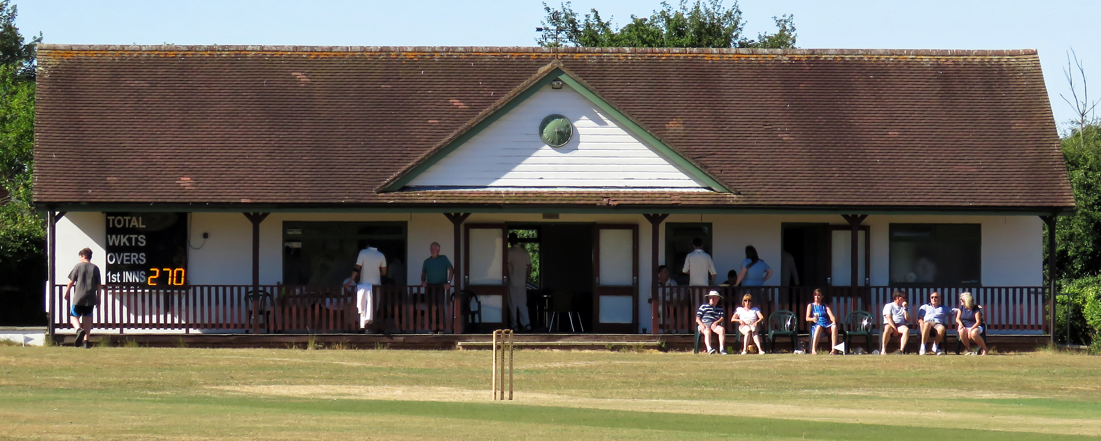 The pavilion of Little Hallingbury Cricket Club at Gaston Green, Little Hallingbury, Essex, England in 2018.Camera: Canon PowerShot SX60 HSSoftware: File lens-corrected, optimized, perhaps cropped, with DxO PhotoLab, and likely further optimized with Adobe Photoshop CS2.